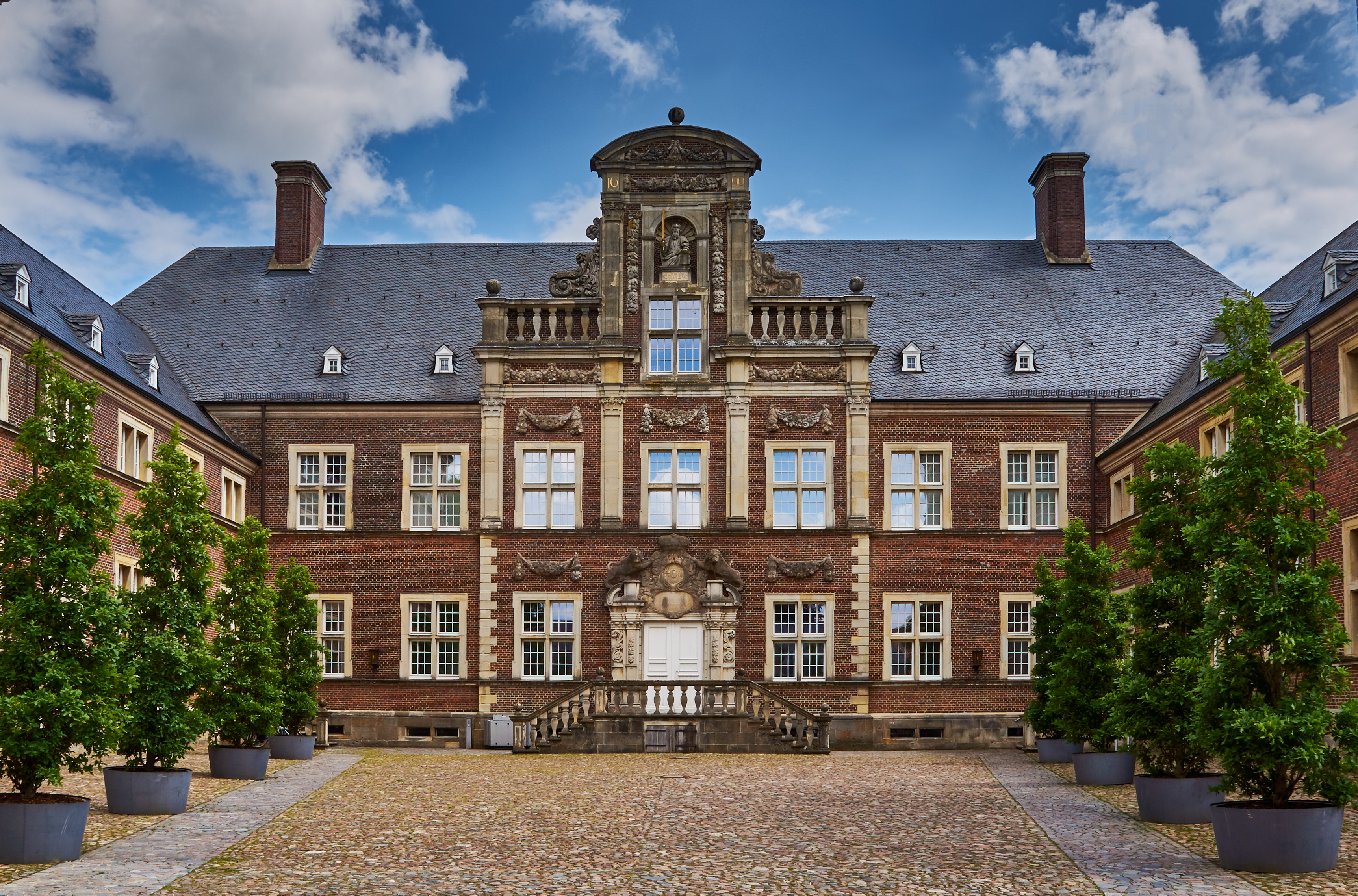 Ahaus Castle, Ahaus, district of Borken, North Rhine-Westphalia, Germany. This is a photograph of an architectural monument.It is on the list of cultural monuments of Ahaus